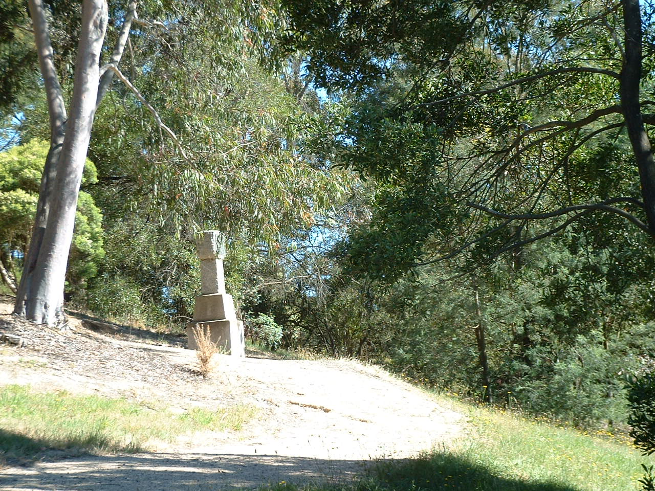 Historic marker at Poverty Point, Ballarat, Victoria, Australia. This marks the site of where gold was first found in Ballarat in 1851. The site is just off Main Road in the suburb of Golden Point.